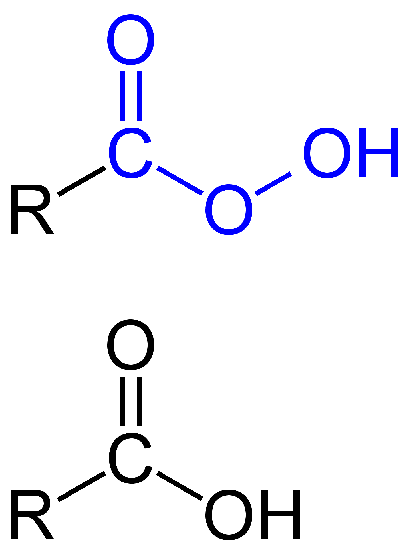 Peroxy Acid General Formulae